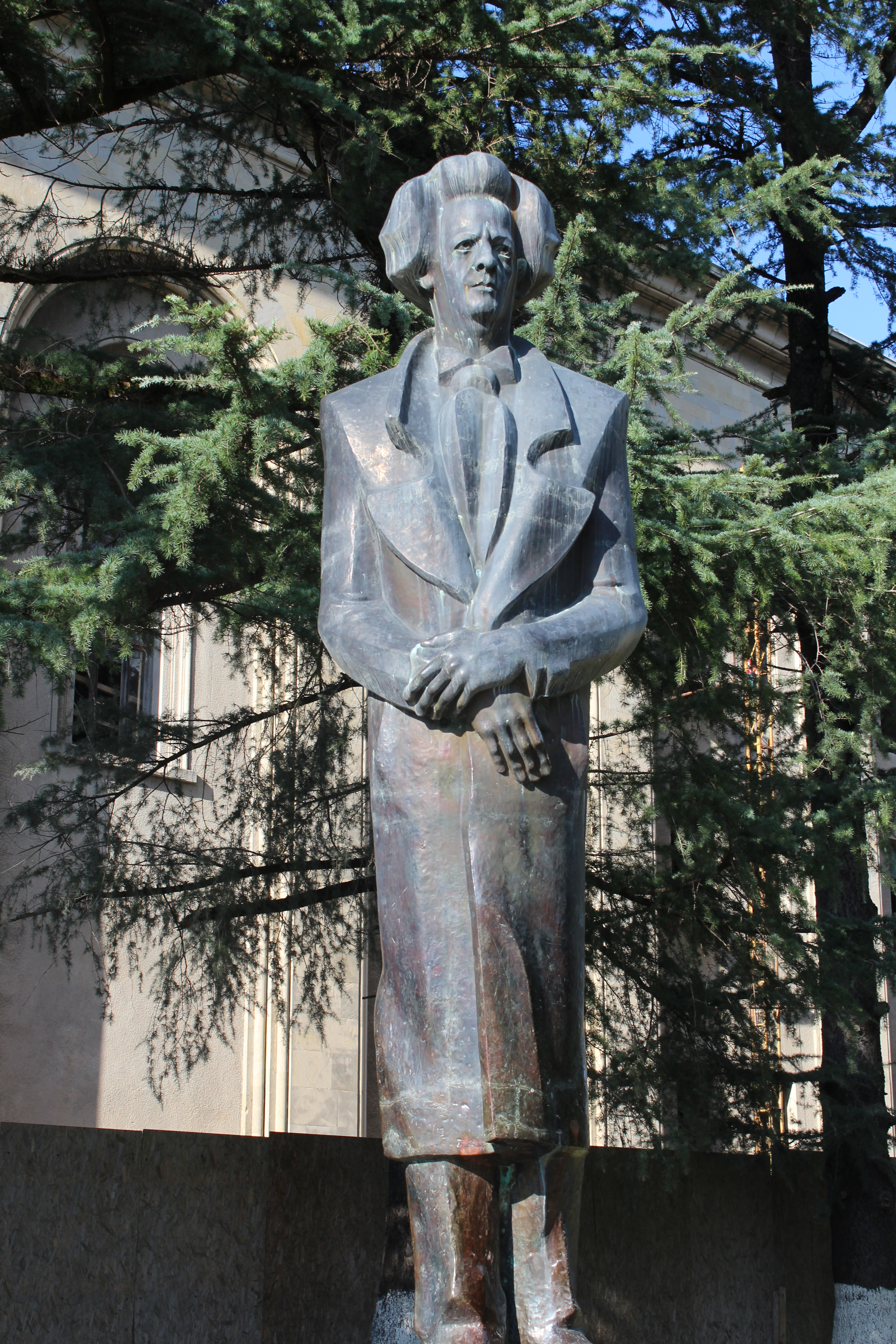 Aleksandre Tsutsunava Statue